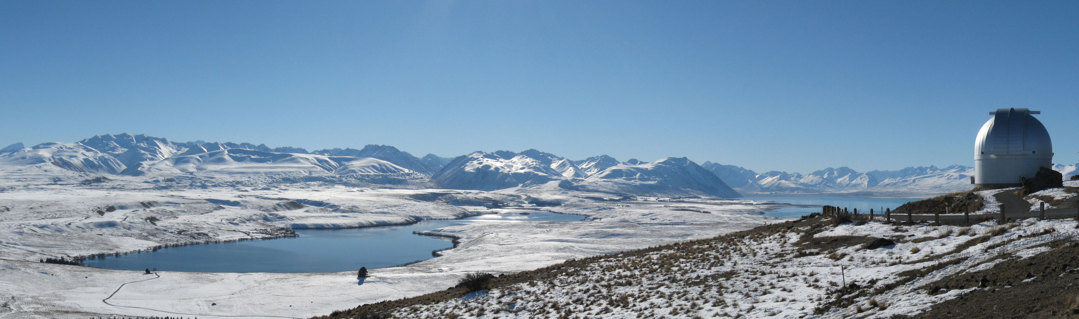 Author: Ryan Hellyer URL